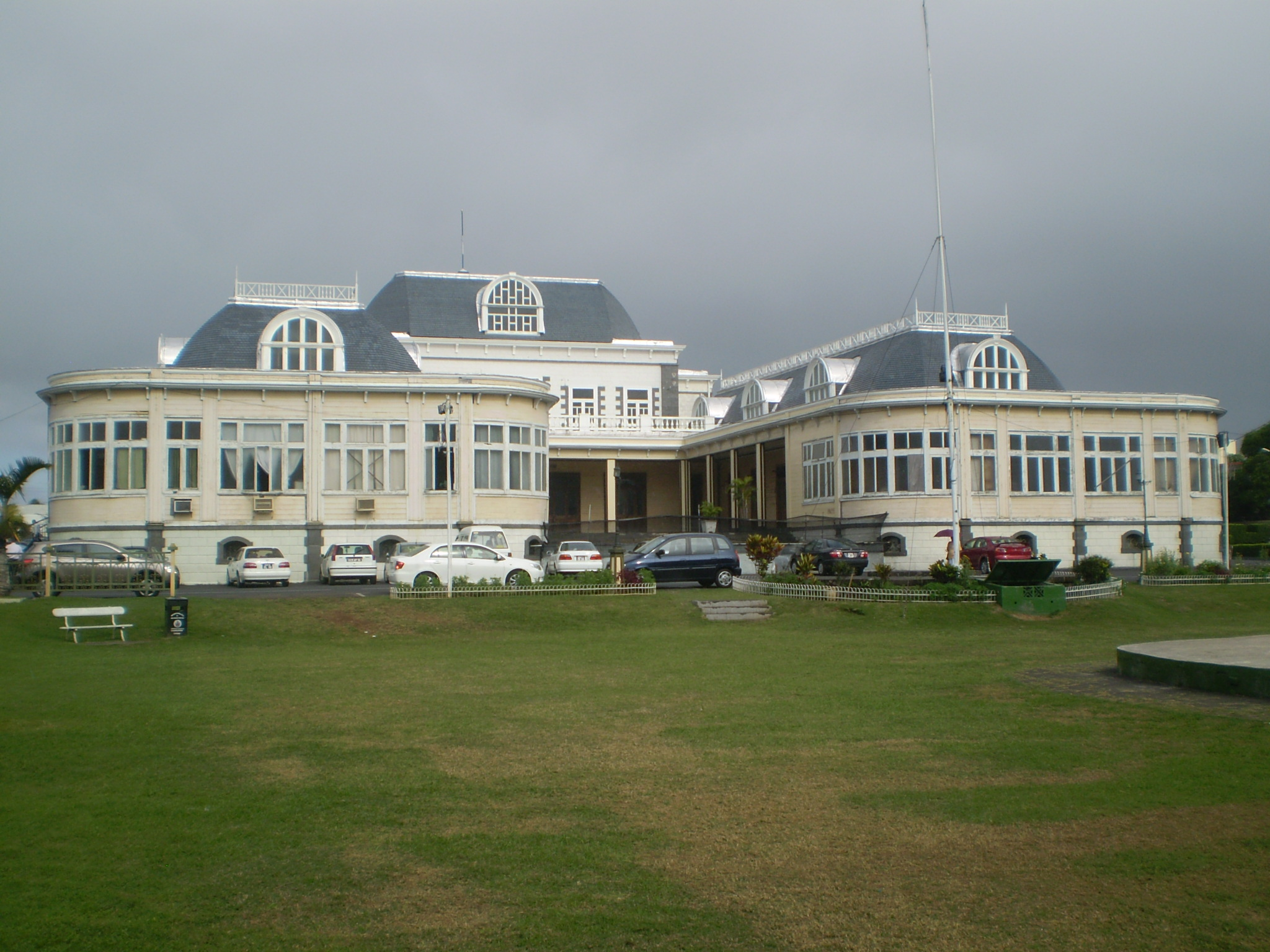 The Plaza found in Beau Bassin Rose Hill, Mauritius